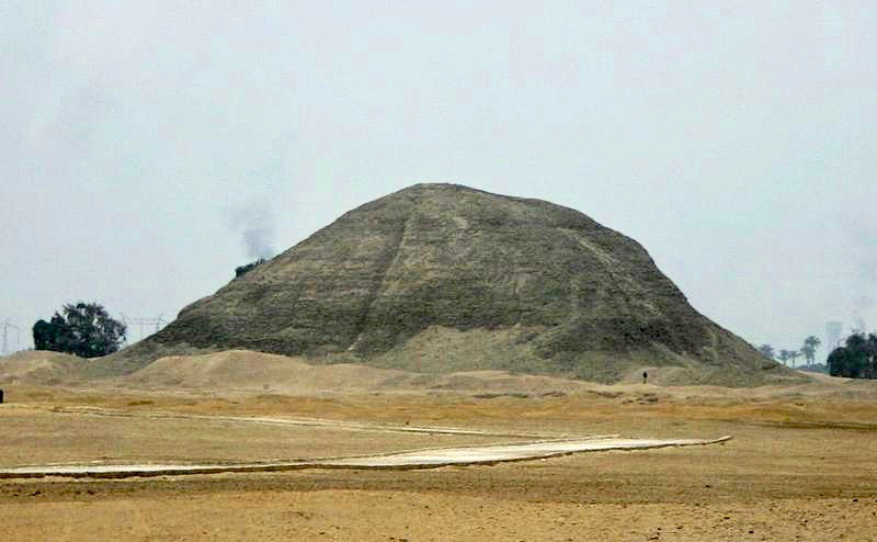 Replacement to original photo – taken by myself, 2005